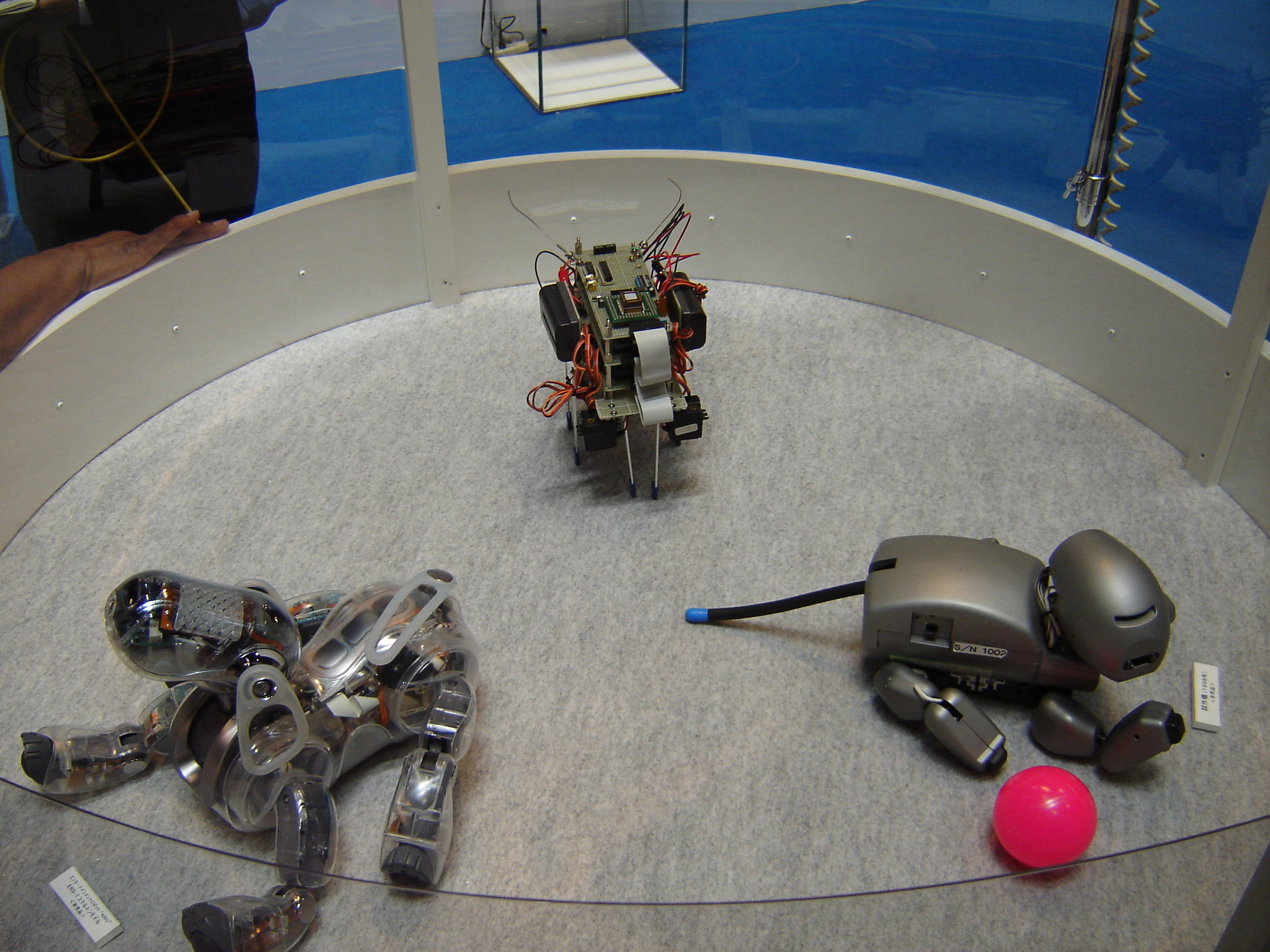 A transparent AIBO ERS-7 on the left and (really old) previous models.